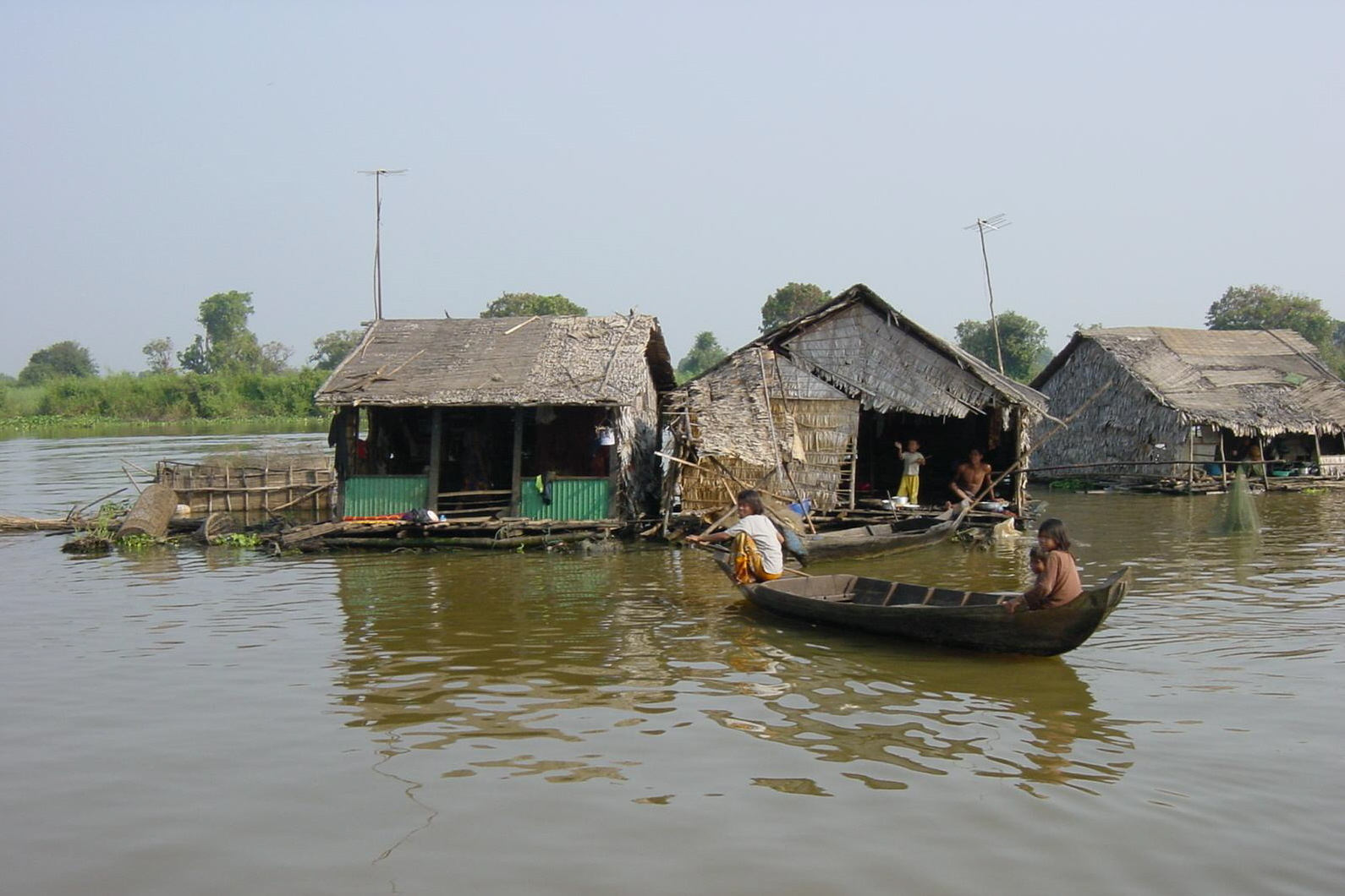 Floating houses along the Sangker river, Cambodia